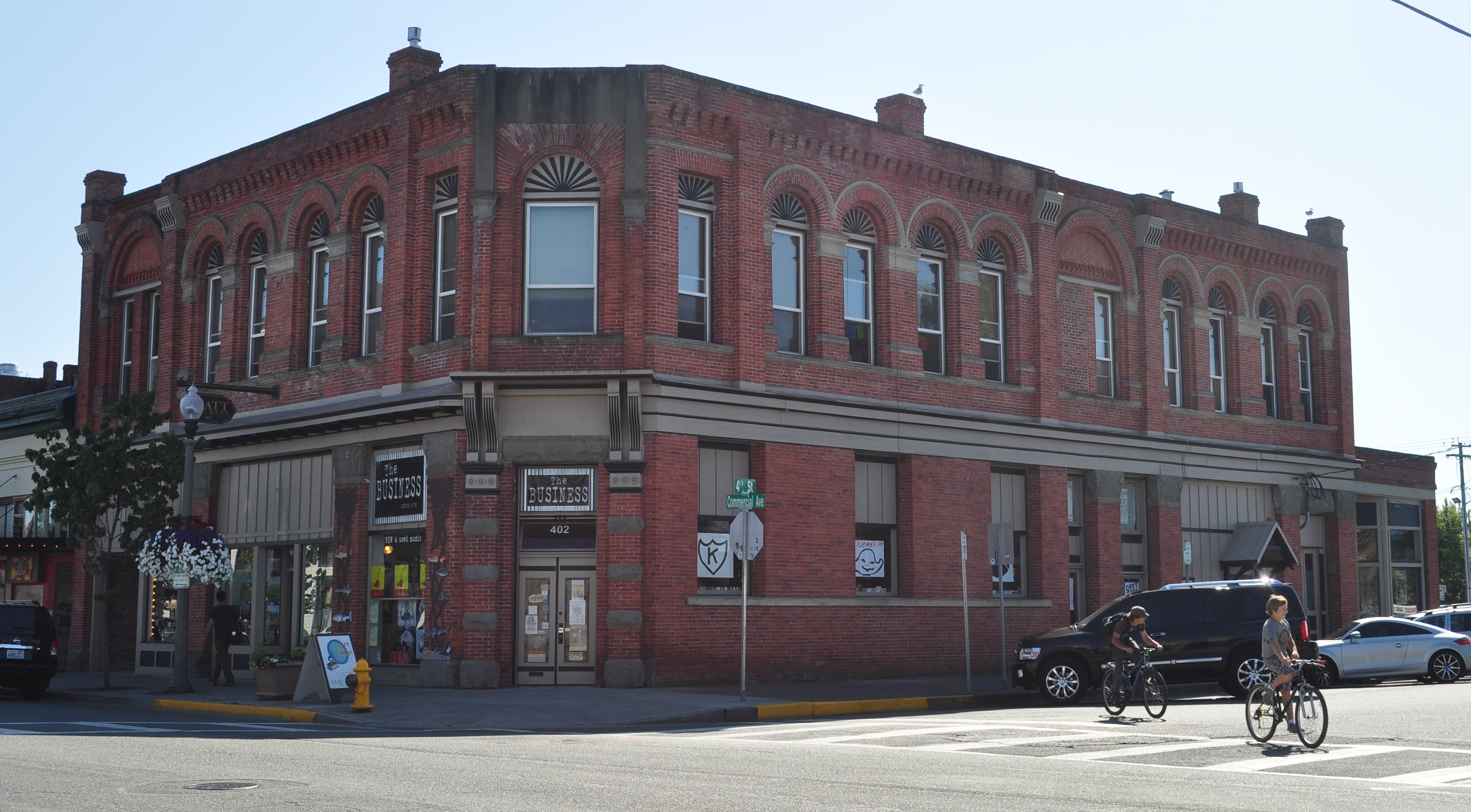 Platt Building, 402 Commerial Avenue, Anacortes, Washington. Former bank, now houses The Business (record store).